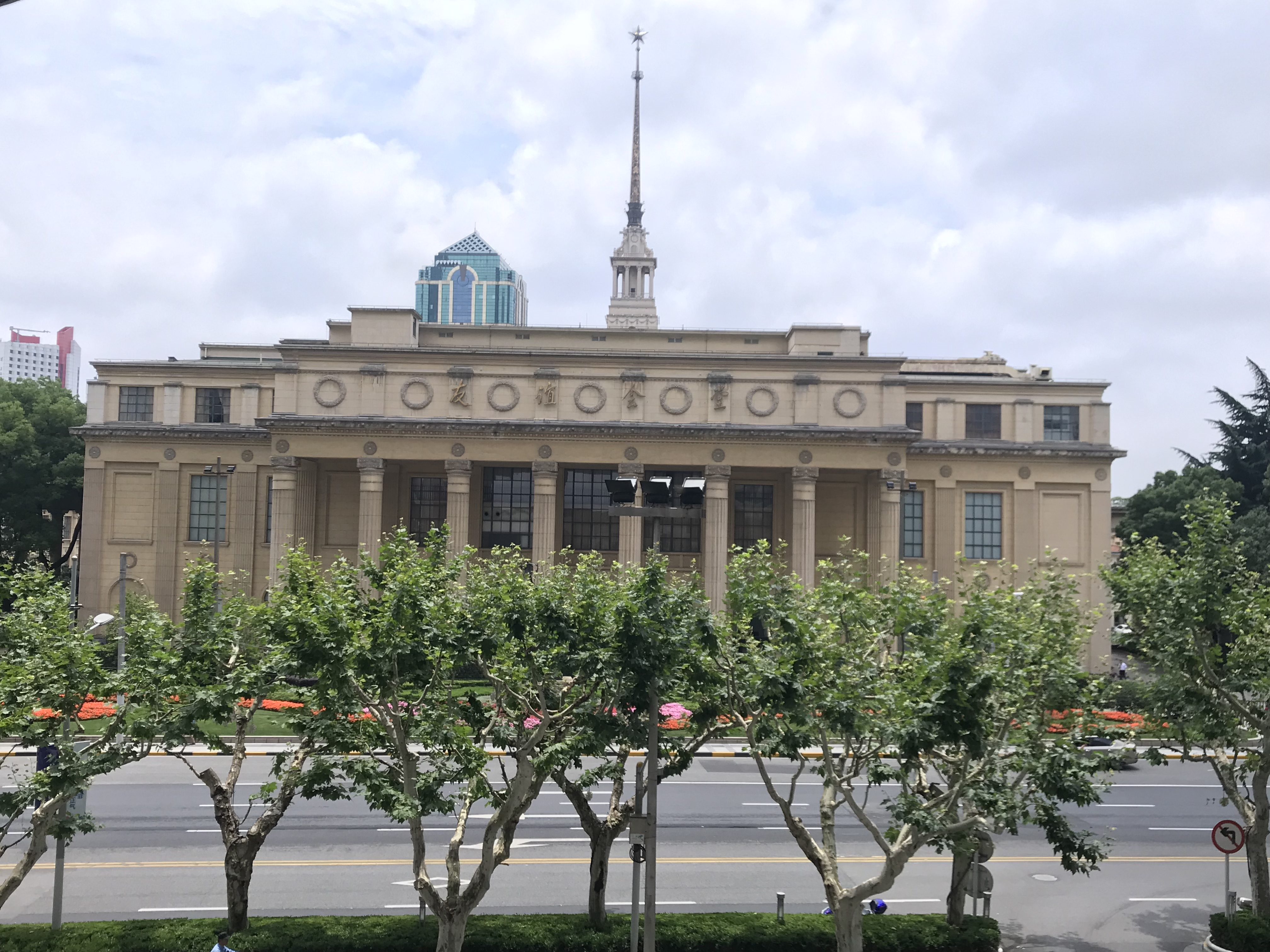 201907 Youyi Auditorium